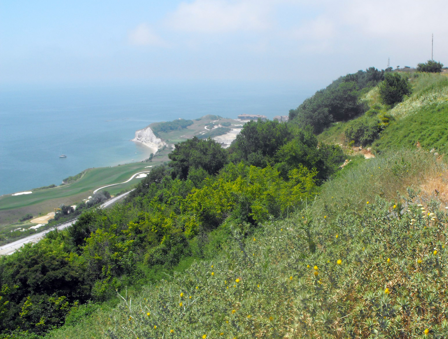 Kompleks Kaliakra: Site of Community Importance BG0000573